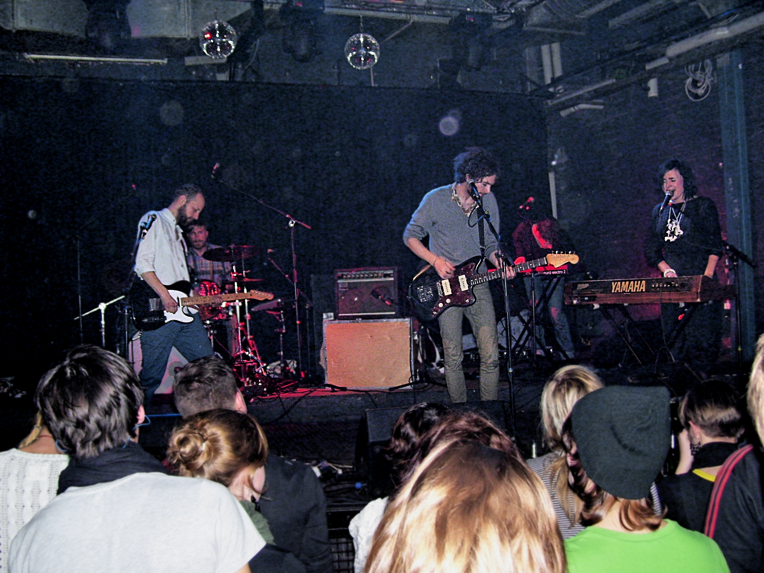 Lampshade, Band from Denmark/Sweden, live in Forum, Bielefeld (Germany), March 6, 2009